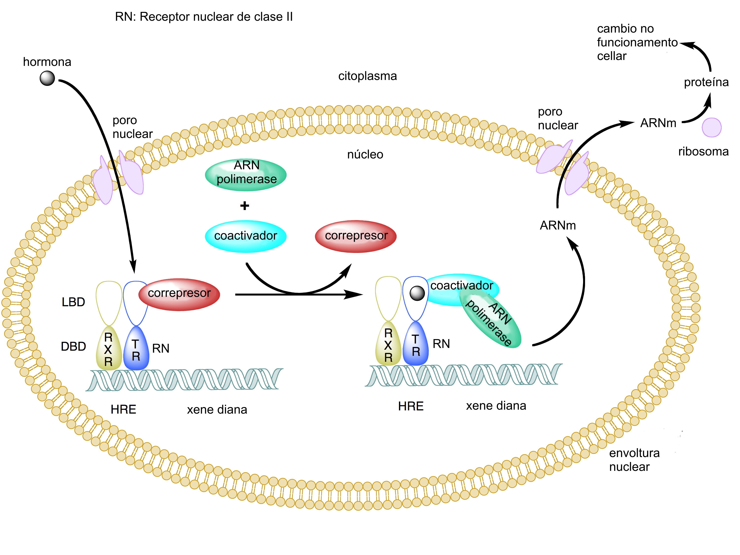 mechanism of a type II nuclear receptor